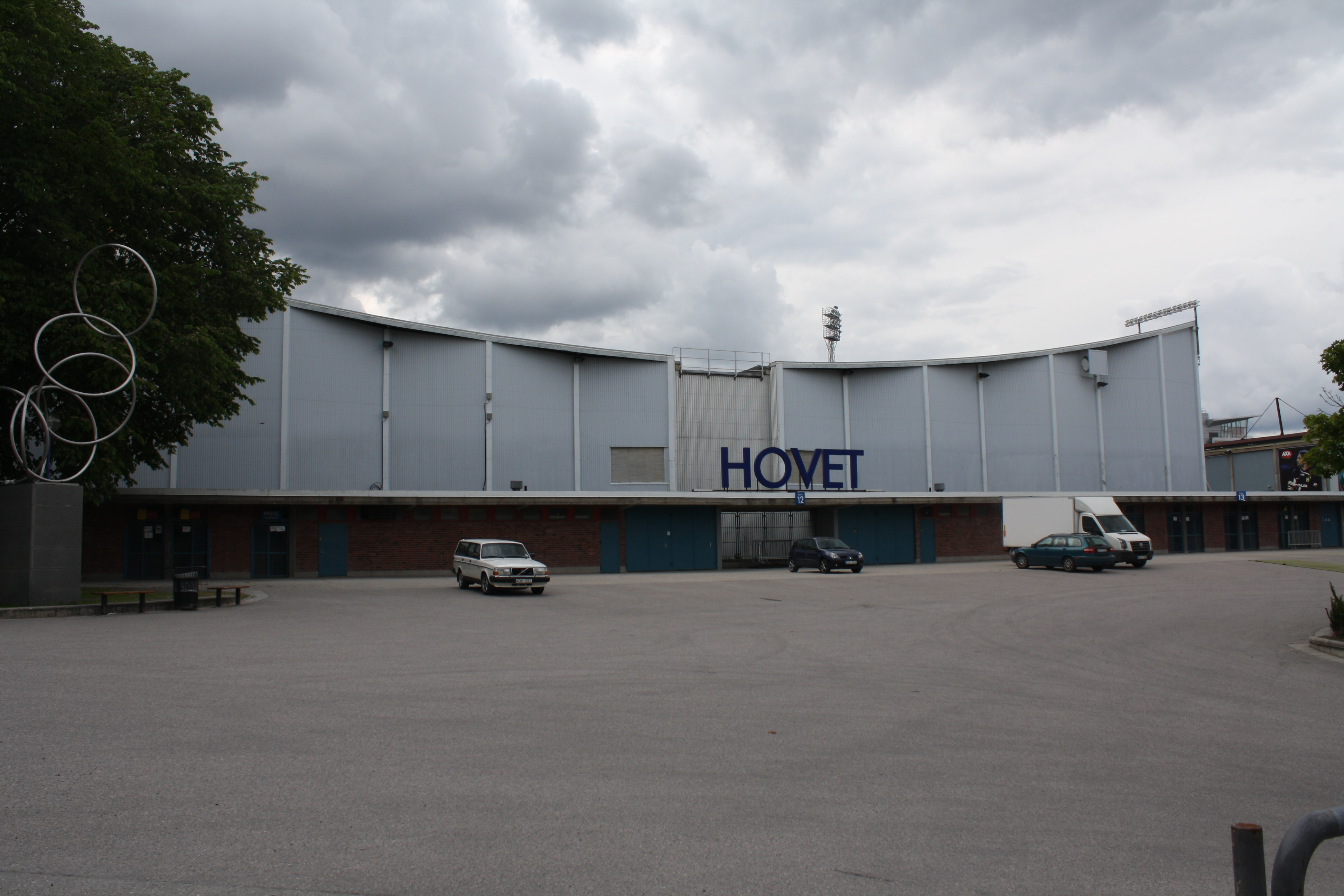 Exterior of Hovet arena. Entrances 11 to 13.